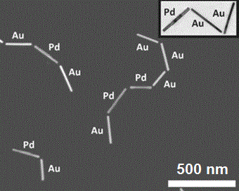 AU